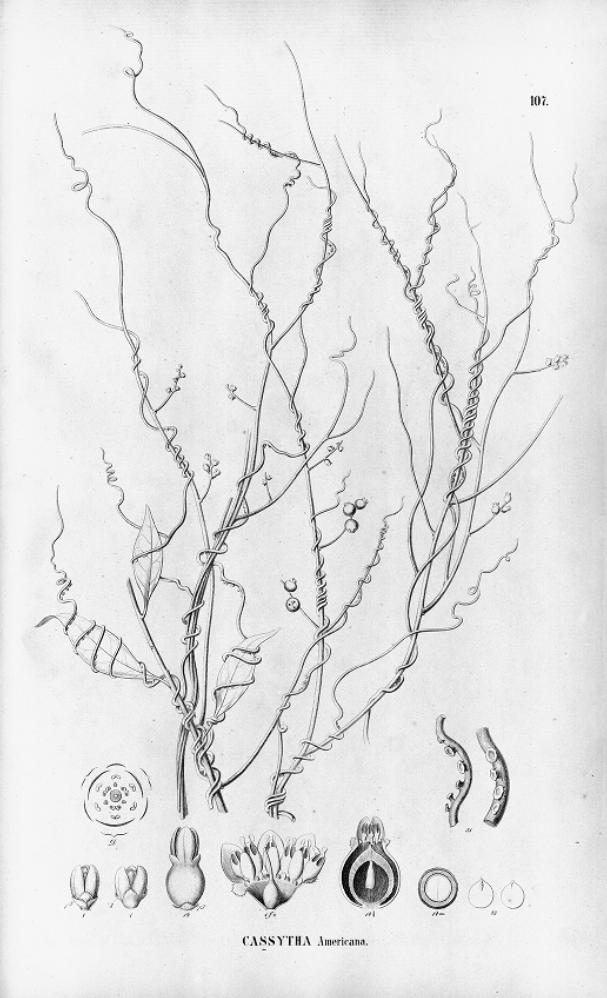 Illustration of Cassytha filiformis (Orig. Cassytha americana)